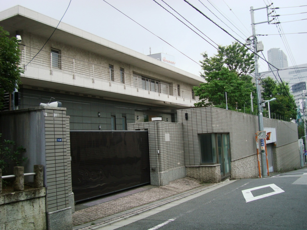 Tokyo Metropolitan Governor's guest house, Shoto, Shibuya city, Tokyo